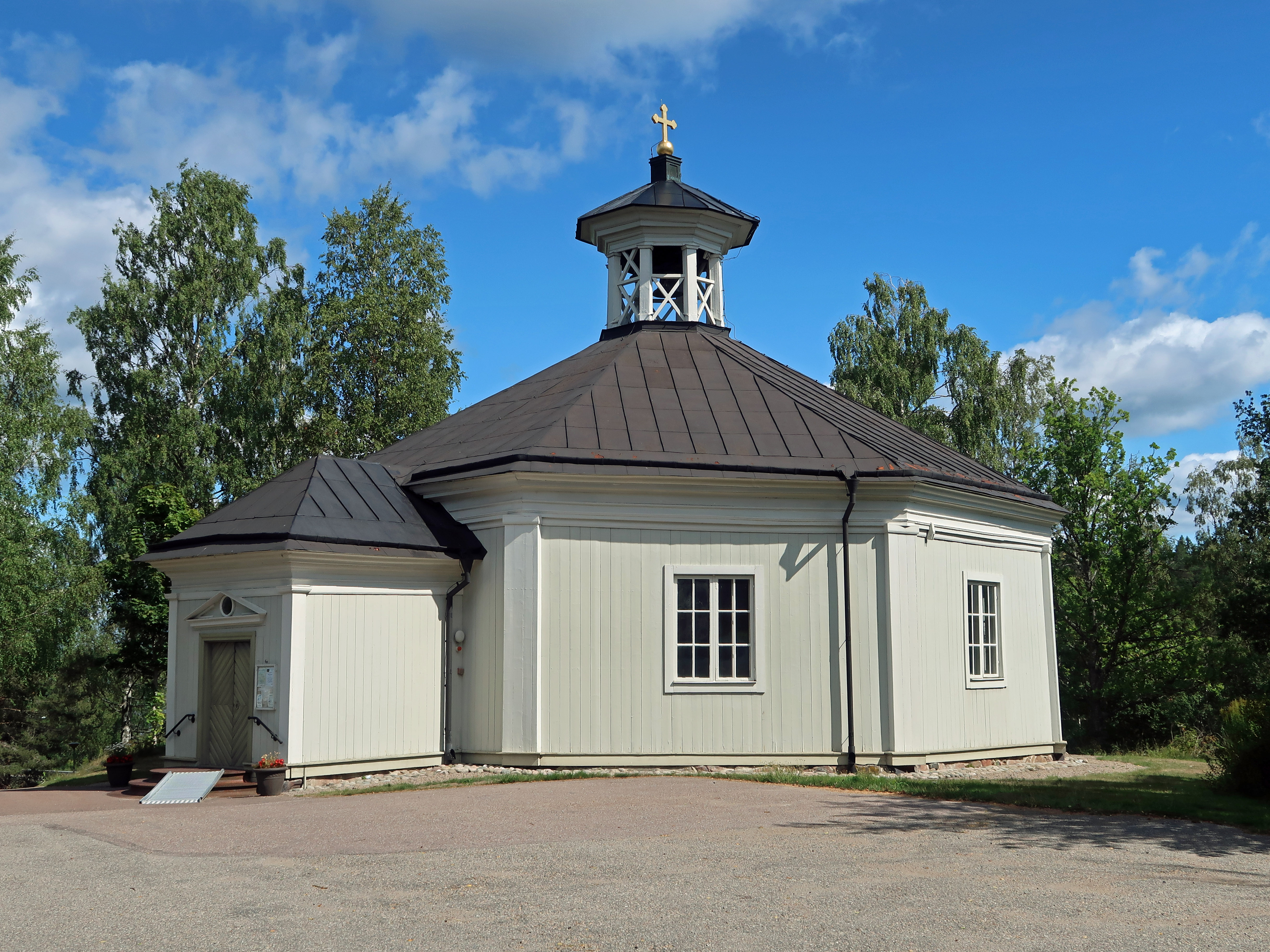 Sankta Anna Chapel, Malingsbo, parish of Söderbärke